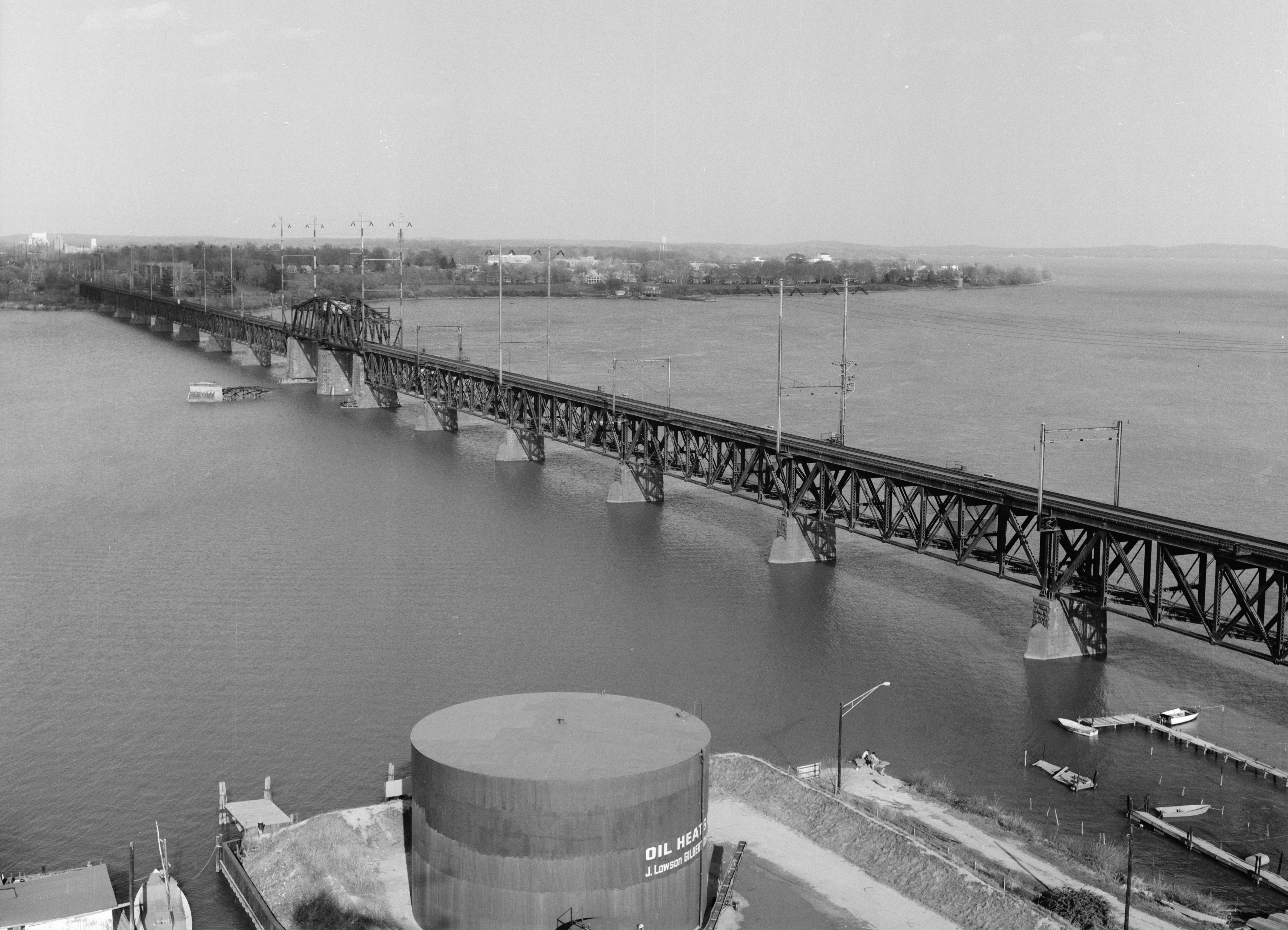 Railroad bridge over the Susquehanna River in Maryland, USA between Havre De Grace (foreground) and Perryville (background). Originally built and electrified by the Pennsylvania Railroad; now owned by Amtrak.